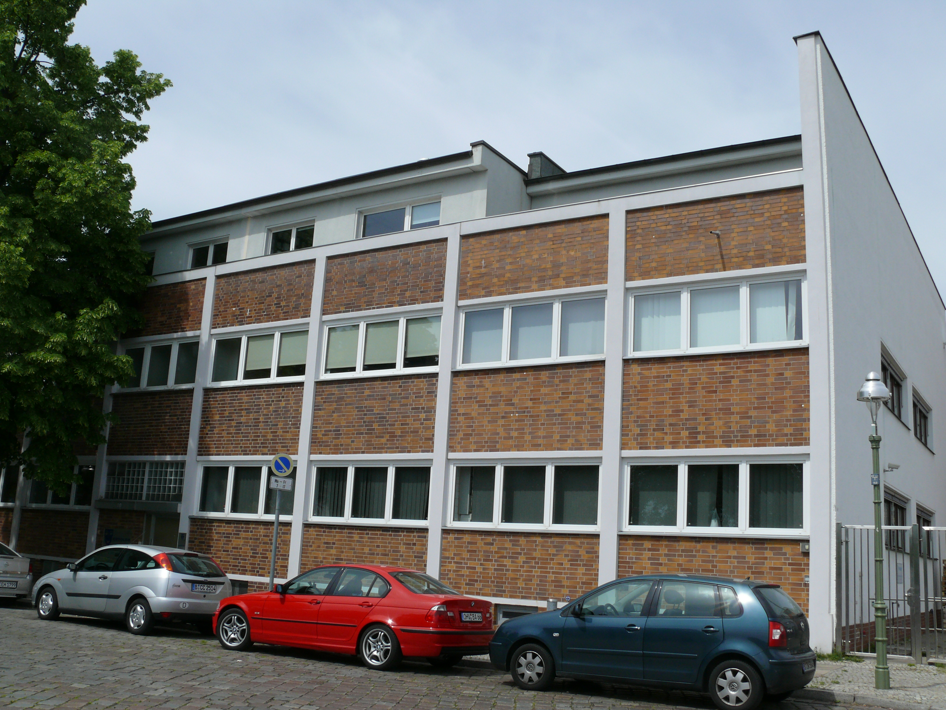 Berlin-Gesundbrunnen Papierstraße